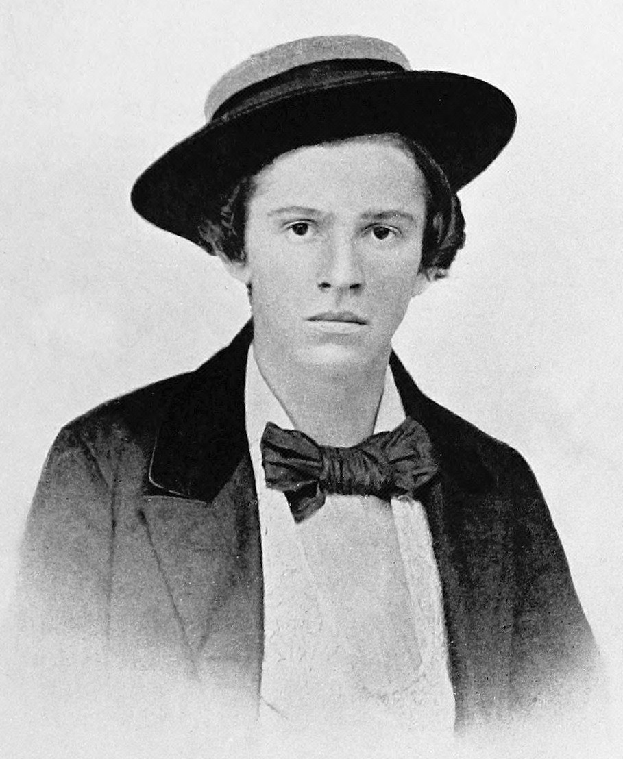 Future senator Mark Hanna as a boy. Hanna was born in 1837. The book the image was contained in was published in 1912.